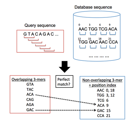 search stage